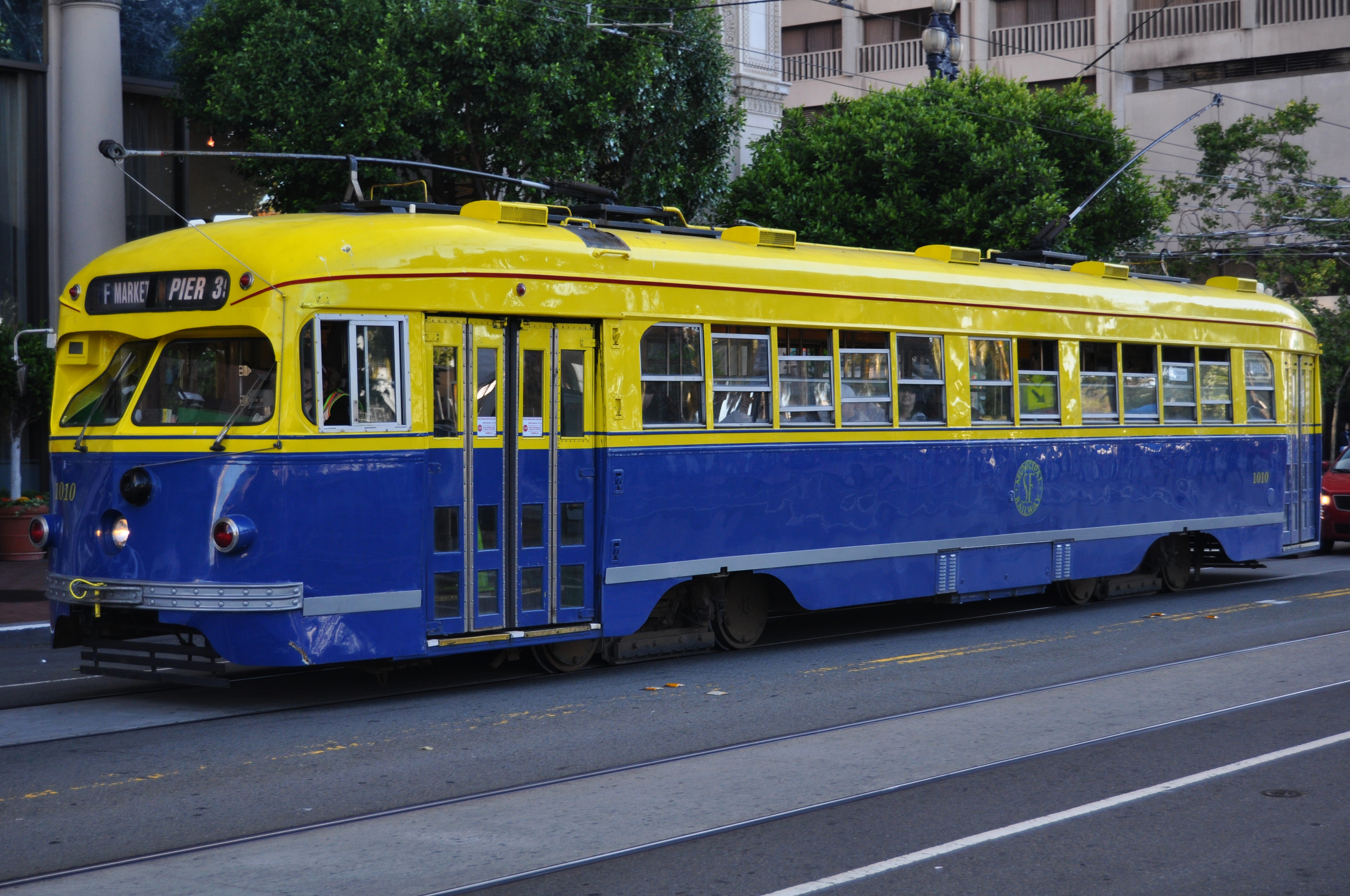 San Francisco Municipal Railway PCC streetcar №1010, picture taken on 8th of July 2011